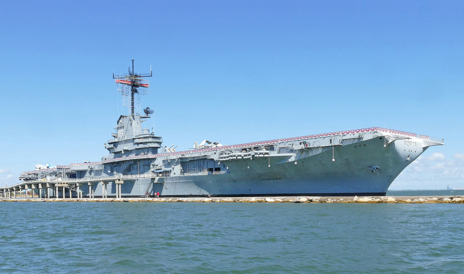 The Japanese referred to Lexington as a "ghost" ship for her tendency to reappear after reportedly being sunk. This, coupled with the ship's dark blue camouflage scheme, led the crew to refer to her as "The Blue Ghost"